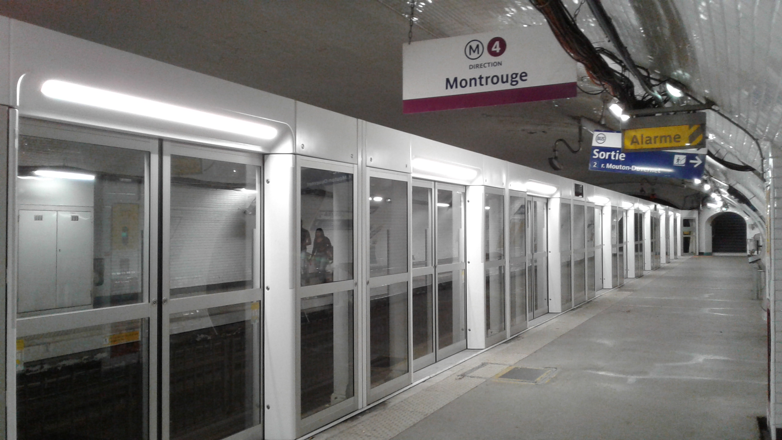 The newly installed platform edge doors on the southbound platform (direction: Montrouge) at Mouton-Duvernet (August 2018). Notice the doors have yet to be installed on the other platform.